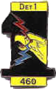 Det 1 460th Tactical Reconnaissance Wing Emblem Tan Son Nhut Air Base South Vietnam